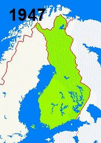 Border changes in Finland 1947